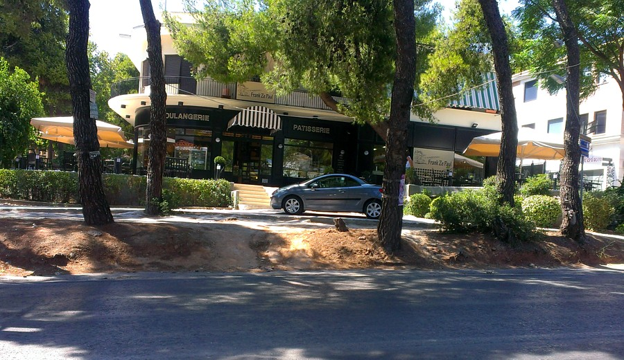 boulangerie